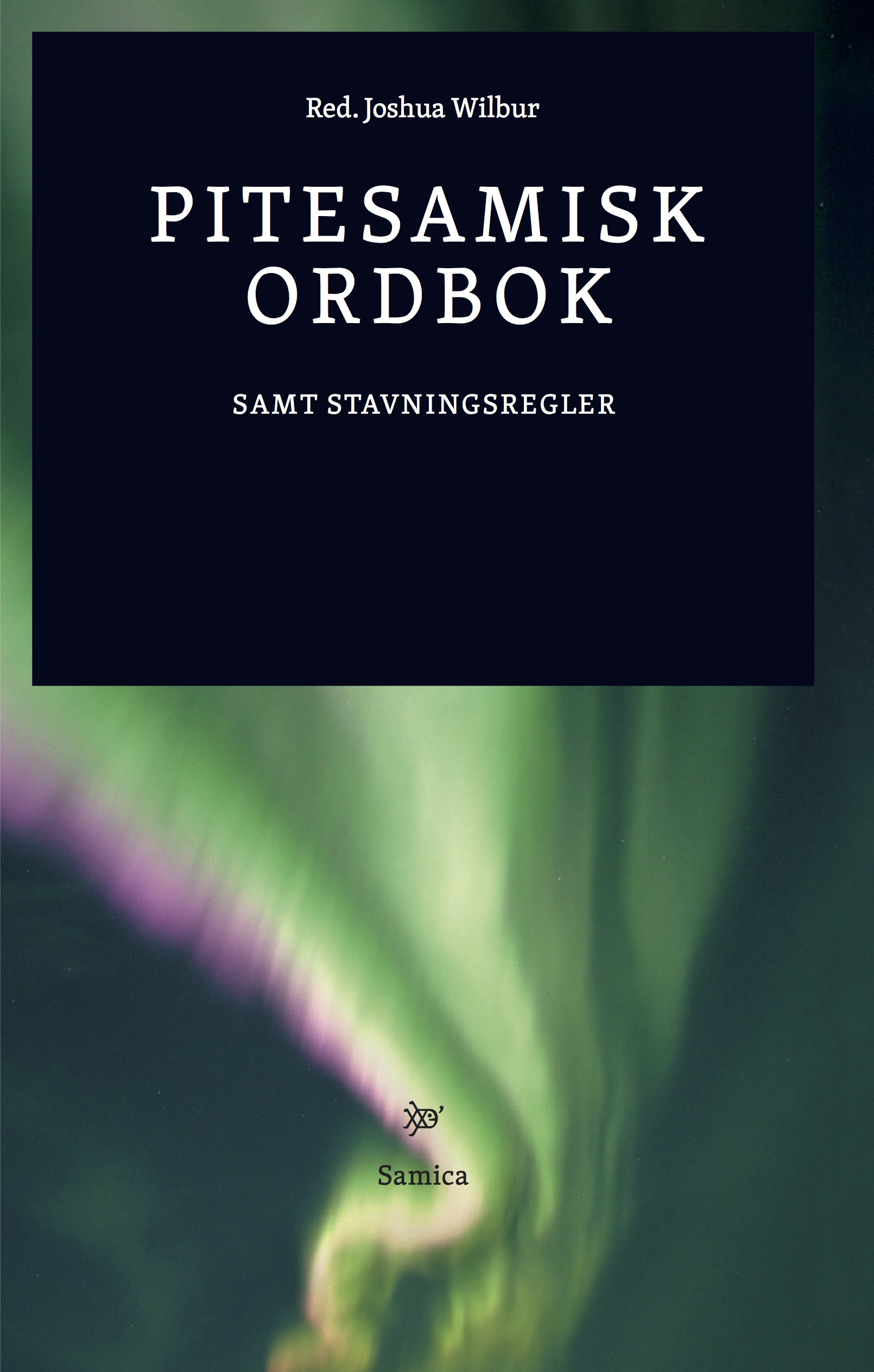 Cover of Samica, vol. 2 (Pitesamisk ordbok ed. by Joshua Wilbur)